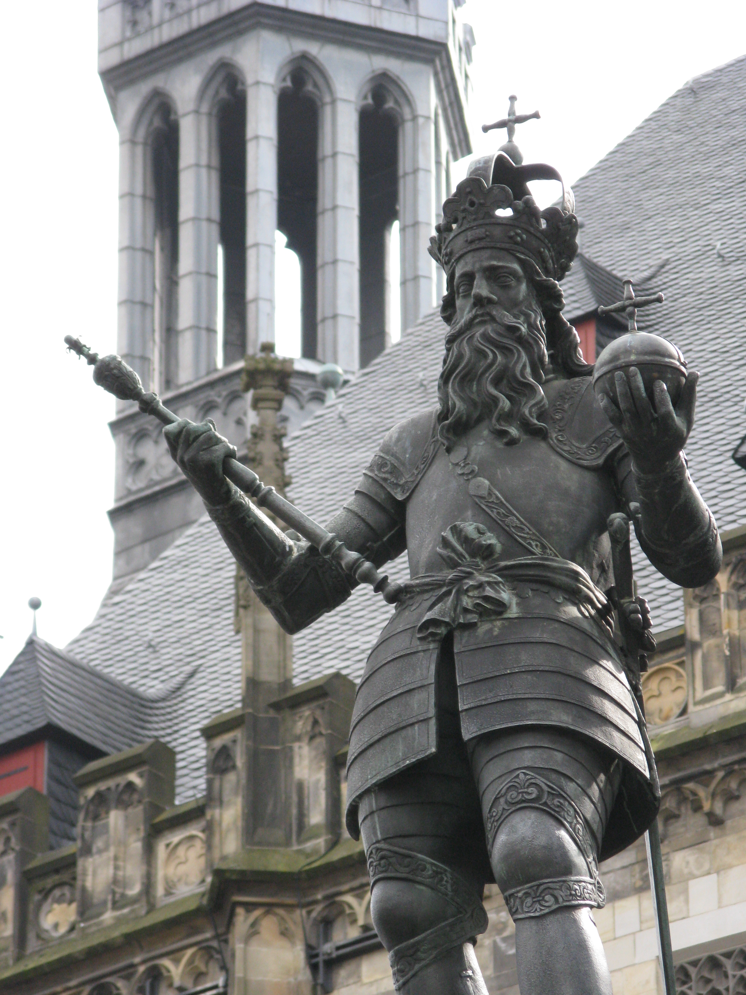 Statue of Charlemagne in front of Aachen town hall.